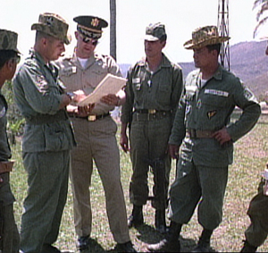 U.S. military advisors confer as Col. Carlos Arana Osorio of Guatemala, and an aide, look on (1965). From left to right: Sgt. Casper González, U.S. infantry advisor; U.S. Army intelligence advisor Major Vernon Justice; unidentified Guatemalan soldier; and Col. Carlos Arana Osorio. Photo still from U.S. Army film shot in 1965 in Guatemala.